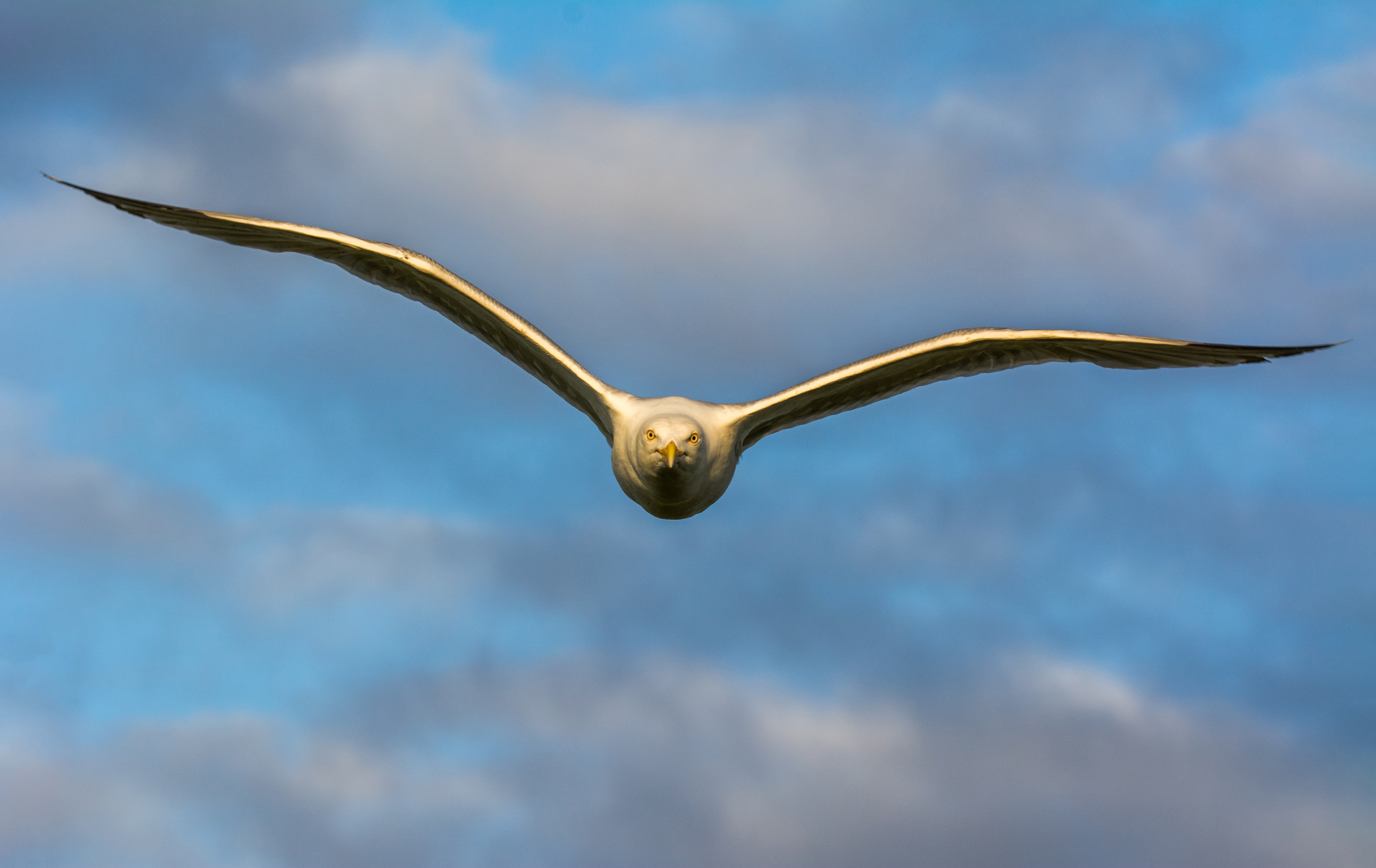 Attacking European herring gull (Larus Argentatus) outside Spiekeroog in the Lower Saxon Wadden Sea National Park, Germany. Edited version.